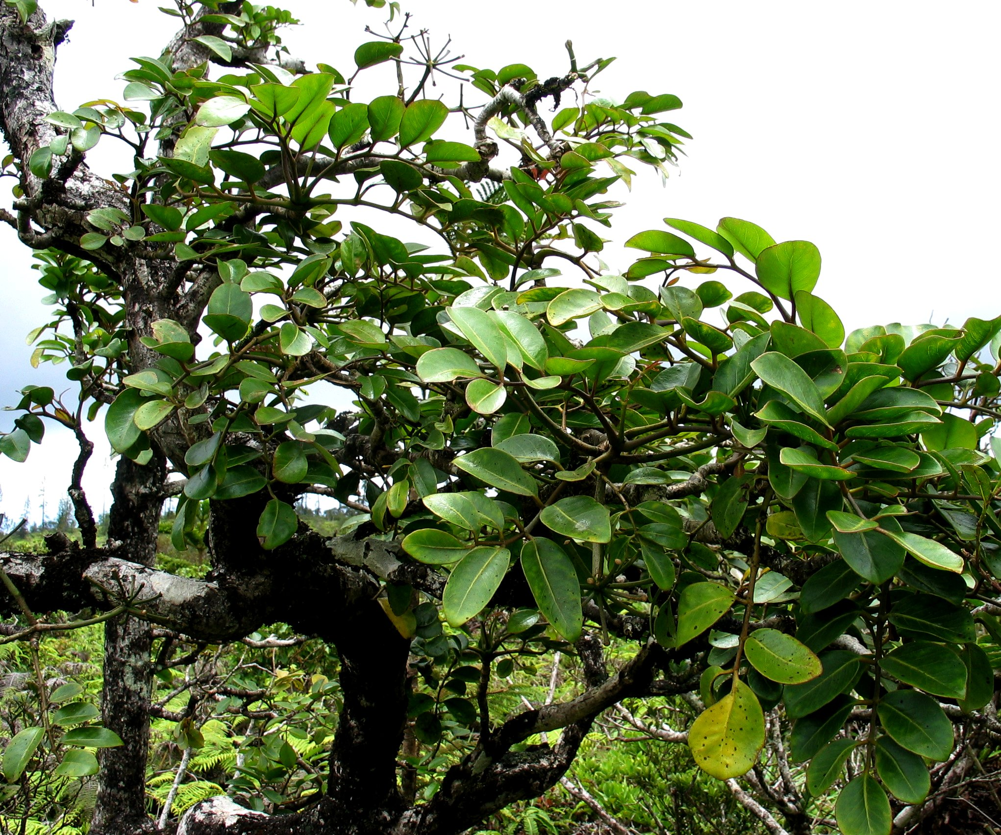 [syn. Tetraplasandra oahuensis] ʻOhe mauka Araliaceae Endemic to the Hawaiian Islands Lānaʻihale, Lānaʻi